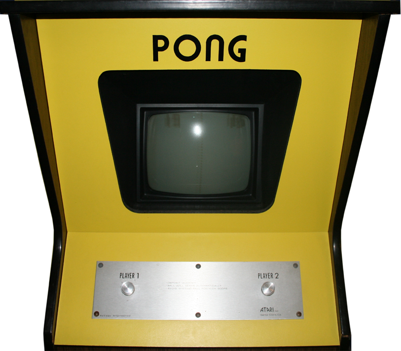 Top of the Atari Pong arcade cabinet.